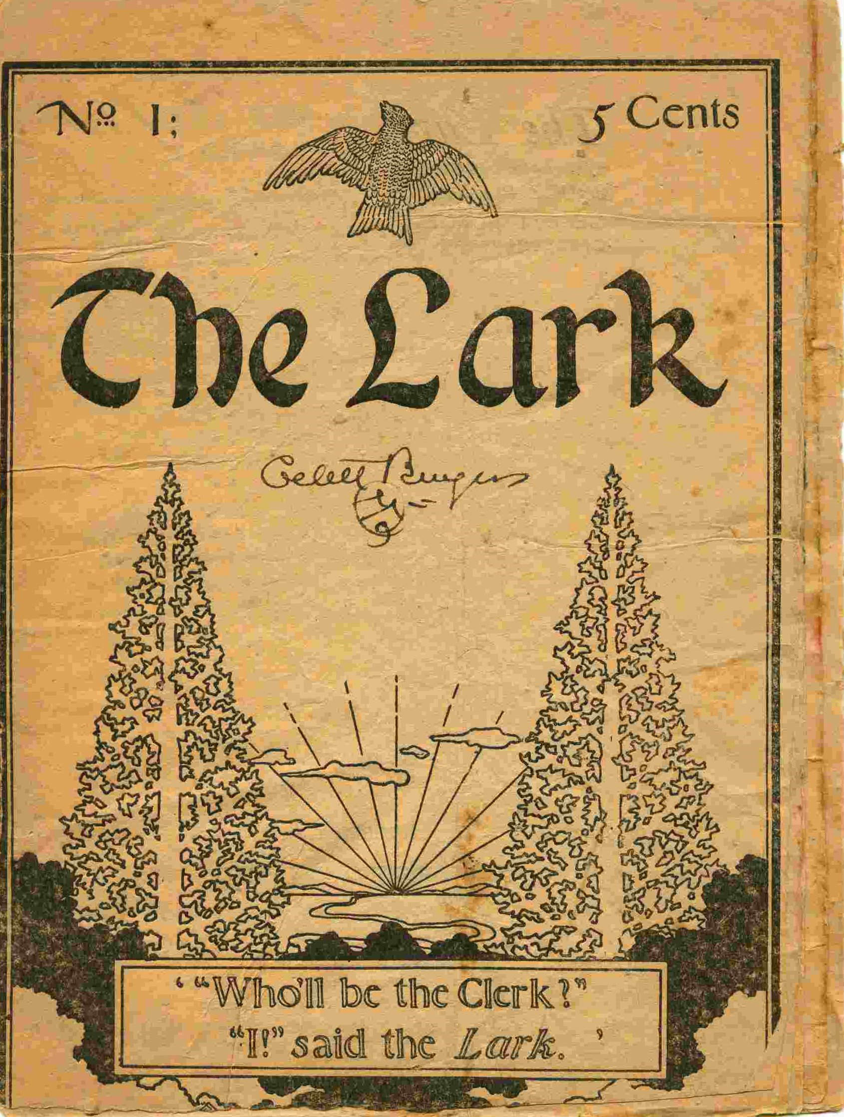 A Gelett Burgess magazine cover from 1895.